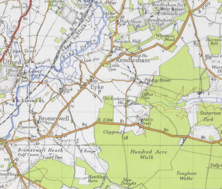 Ordnance Survey of Great Britain New Popular Edition, Sheet 150 - Ipswich